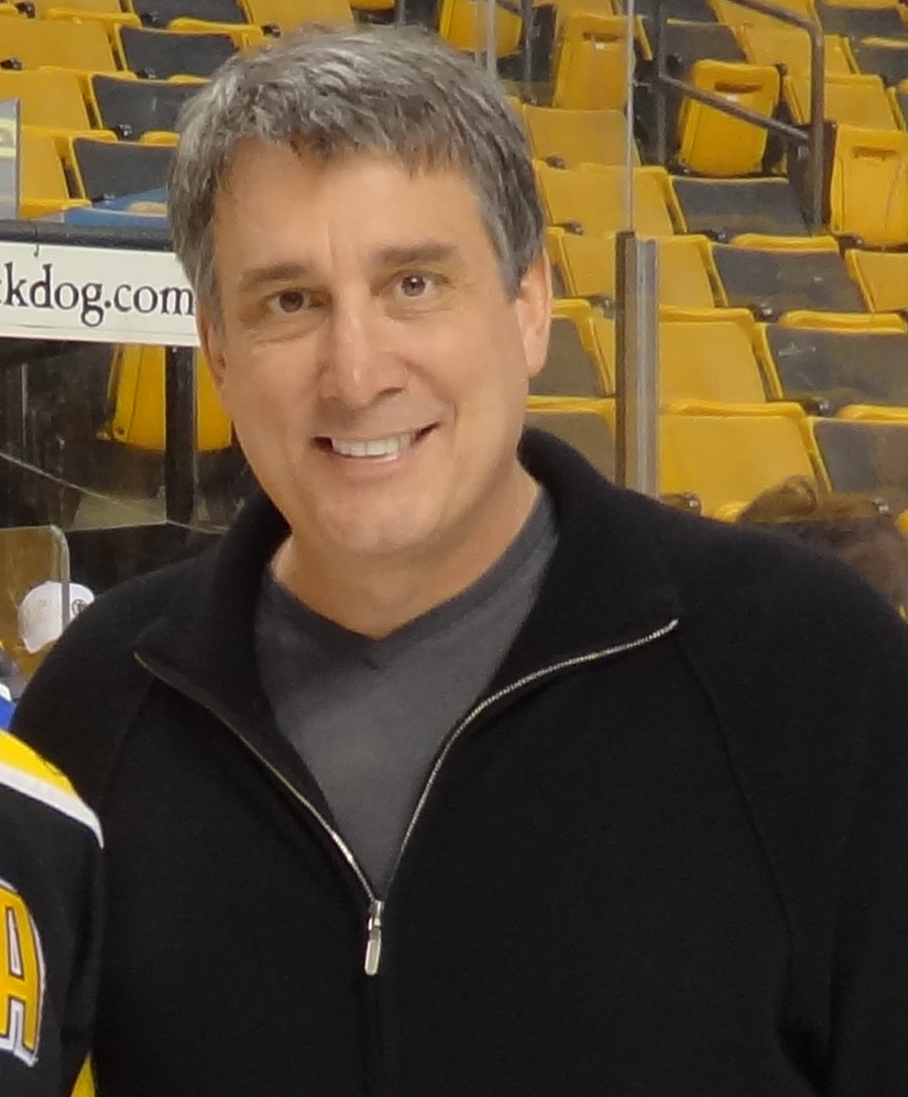 Cam Neely at the Boston Bruins Foundation's 2013 Slice The Ice held at TD Garden.